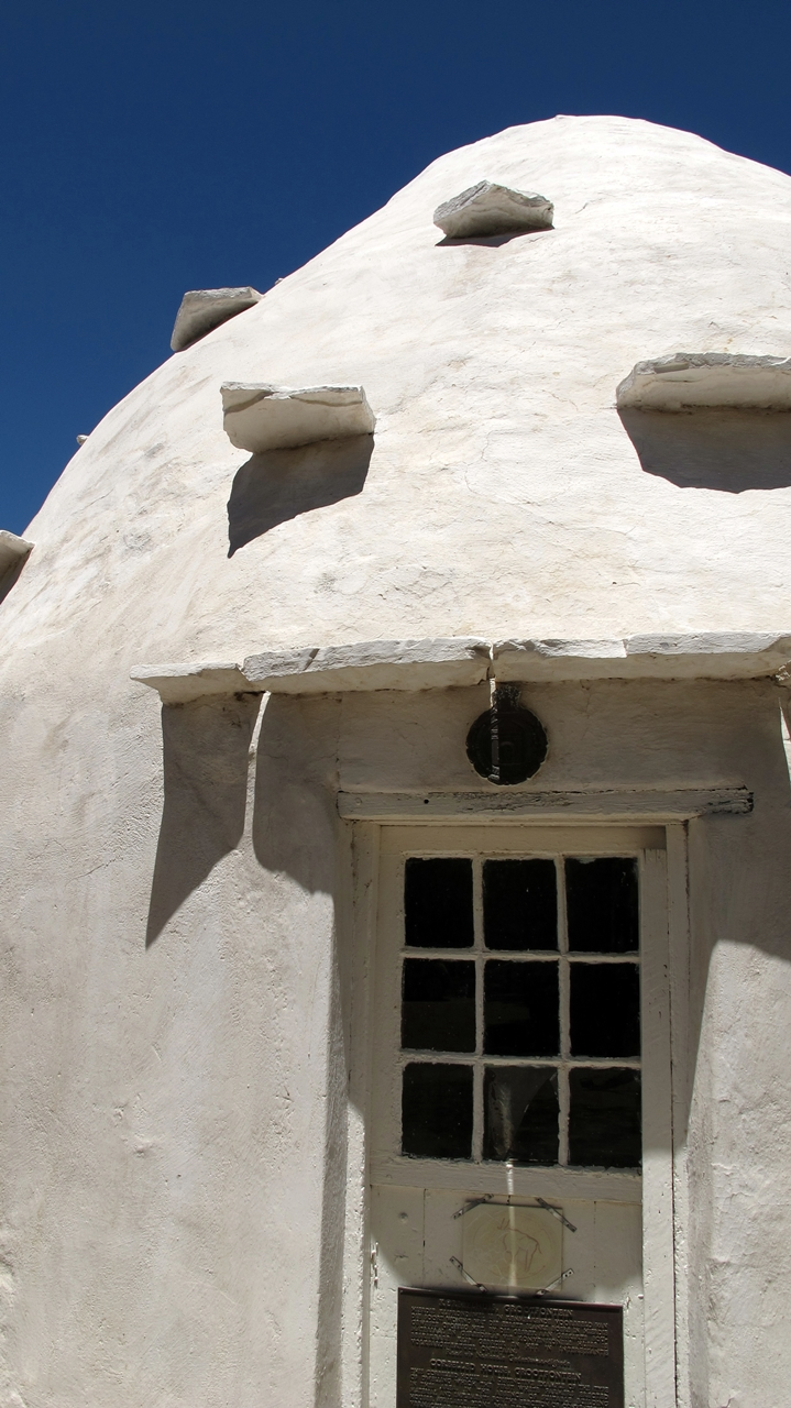 front door to rondavel. It is now blocked from the inside, as it is a storeroom and access is gained through the attached rectangular section and an internal door. This media shows a South African Protected Site with SAHRA file reference 9/2/107/0005.